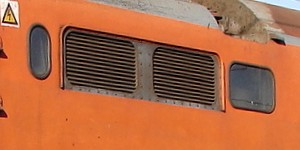 Grilles with rainwater beading on Class 6E1 Series 6 no. E1672Location: Sentrarand, GautengRebuilding: E1672 re-entered service in 2010 after being rebuilt to Class 18E 18-630